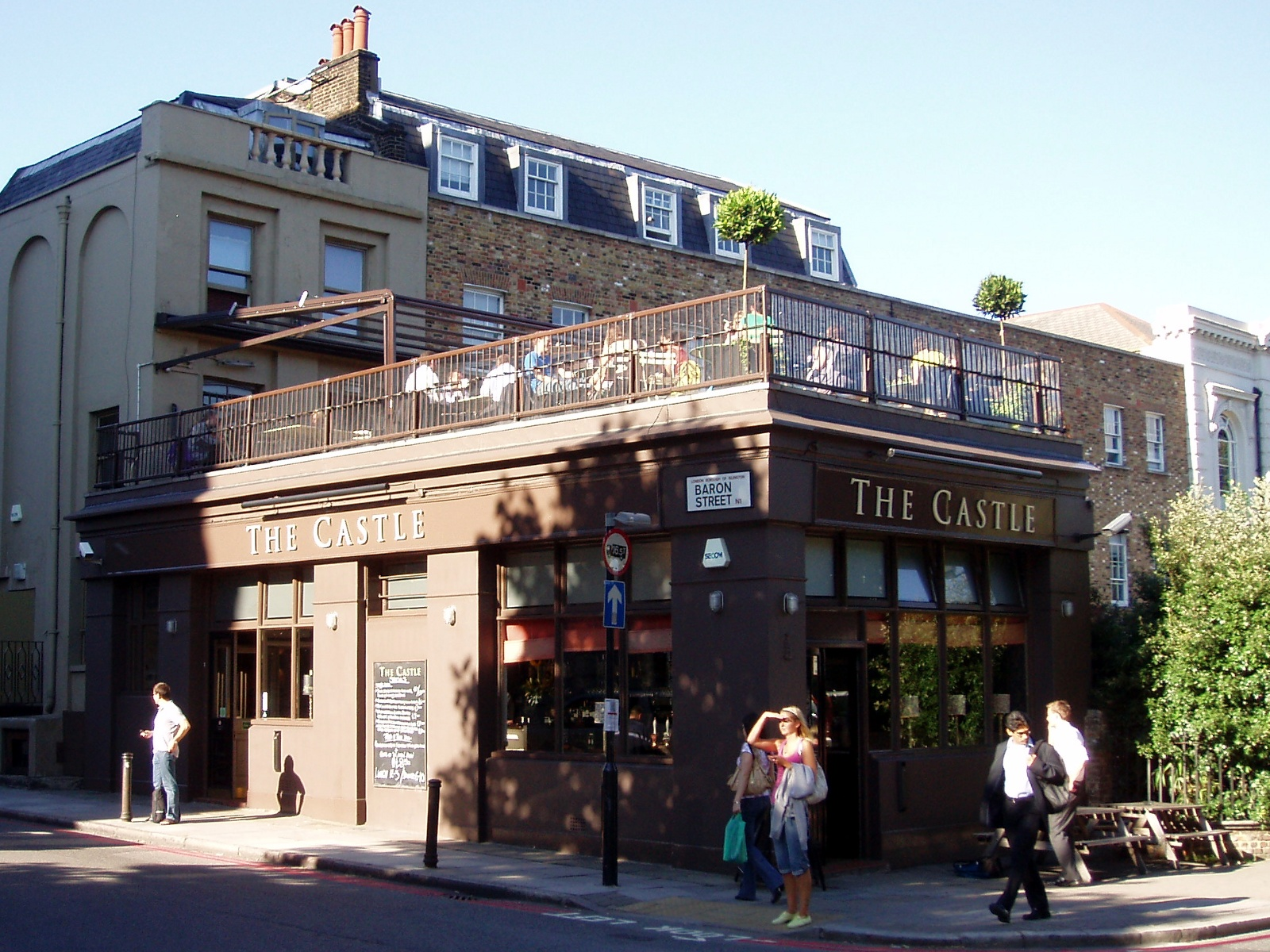 A pub not far from Angel, along Pentonville Road. Address: 54 Pentonville Road. Former Name(s): The Pint Pot; The Penton Arms. Owner: Young's [Geronimo Inns] (website). Links: London Pubology